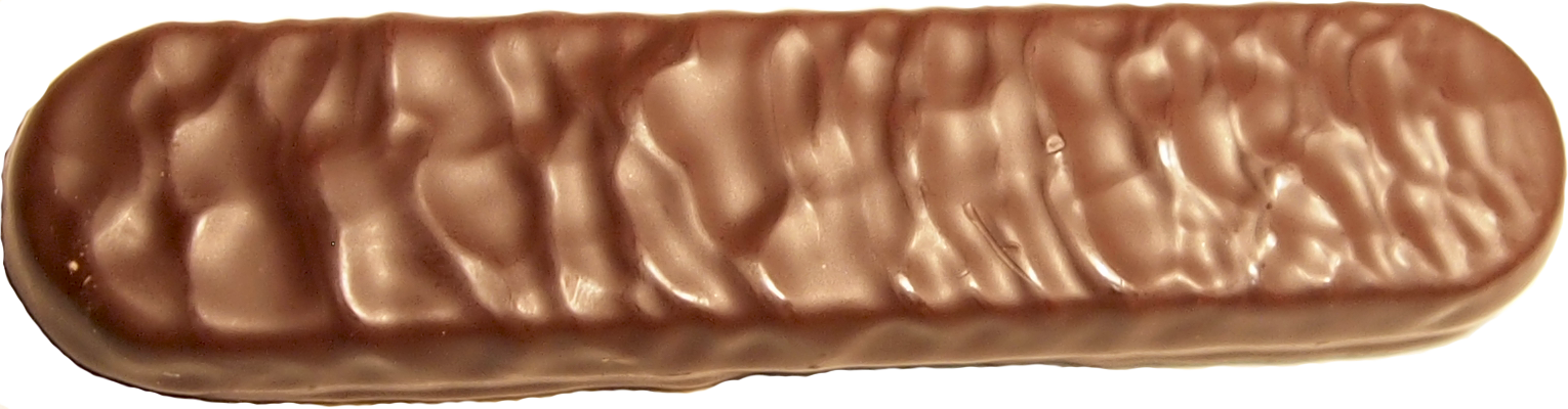 Da Capo chocolate bar manufactured by Fazer.